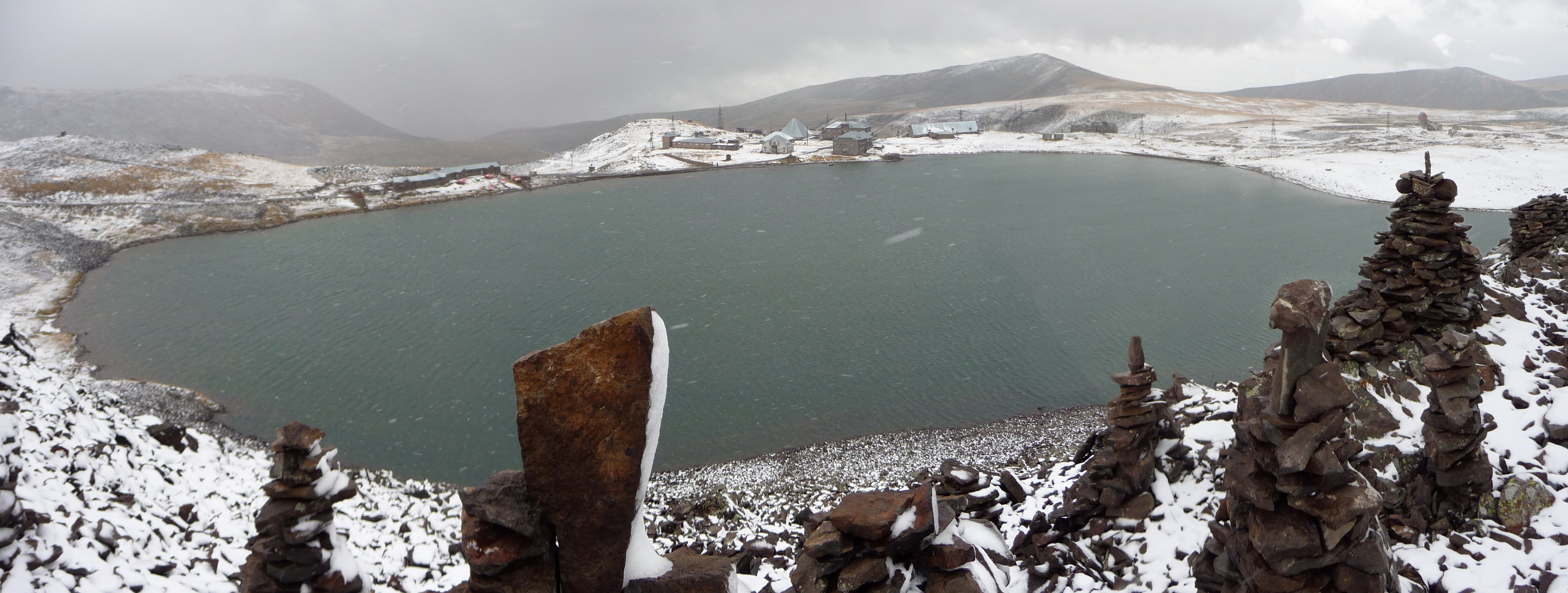 The Kari Lake (Aragatsotn, Armenia).